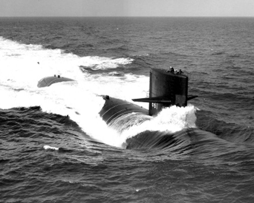 USS Lapon (SSN-661) underway, probably during her sea trials, 1967, off the Virginia coast.